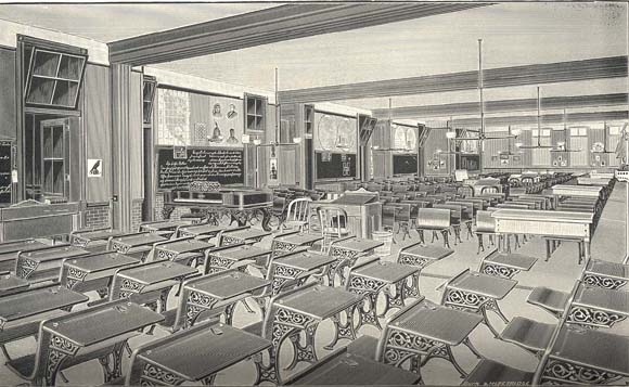 The interior of the Francis M. Drexel School in Philadelphia from the Custis book, published in 1897, p. 435 (original numbering) - out of copyright. Available at Google Books. I've downloaded a jpg format (rather than pdf format) taken from sub page "History from 1888" (clearly the same photo from the same source). Notice the gaslights in the classrooms and the moveable classroom walls that have been folded up and stored